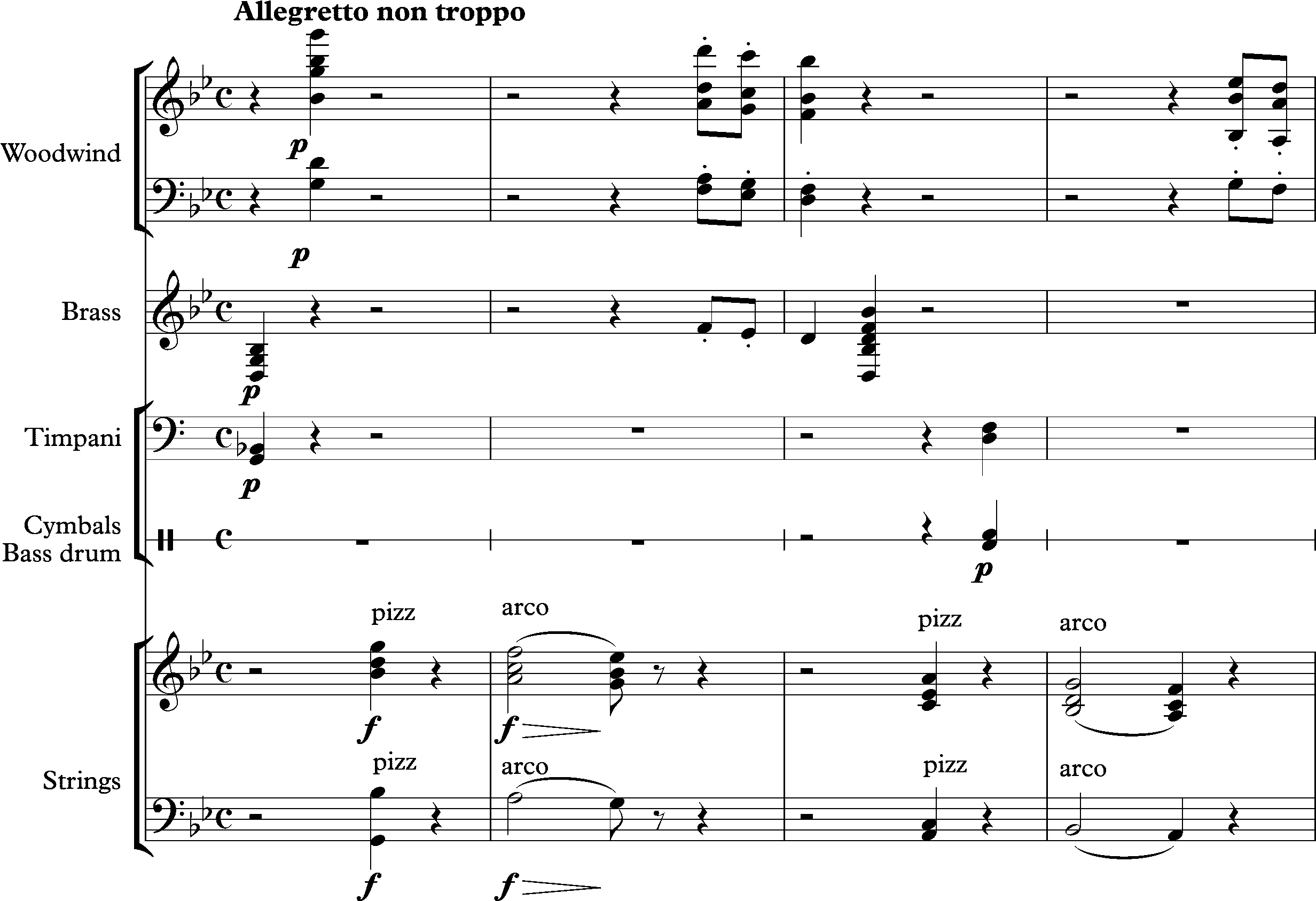 Berlioz March to the Scaffold, bars 109-112